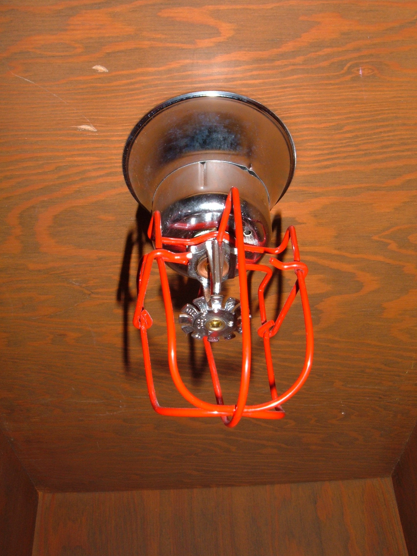 Shielded fire sprinkler, located in the closet of a hospital room in Daly City, California.